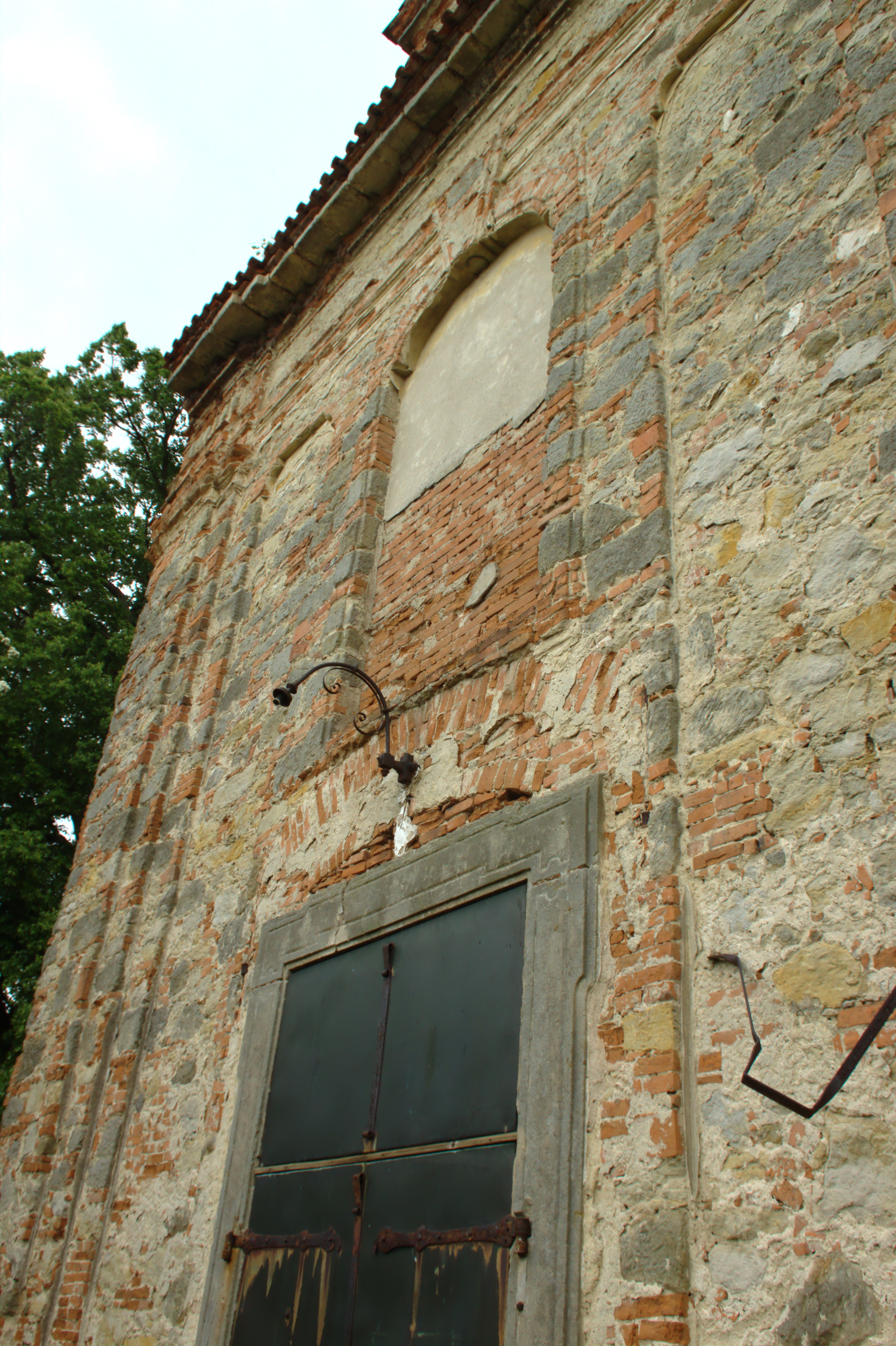 Main church in the town of Skalsko, Central Bohemian Region, CZ